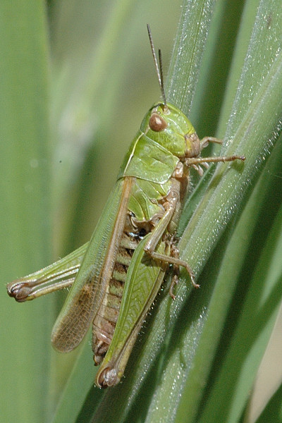 Picture taken in Commanster, Belgian High Ardennes . Species: Omocestus viridulus female